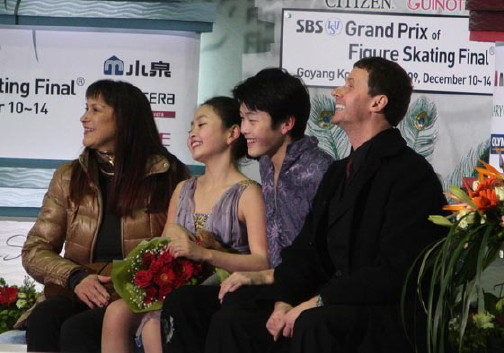 Maia Shibutani & Alex Shibutani (USA) sit with coaches Igor Shpilband and Marina Zueva in the kiss & cry following their free dance at the 2008-2009 Junior Grand Prix Final. The Shibutanis placed 3rd in this segment of the competition and 4th overall.